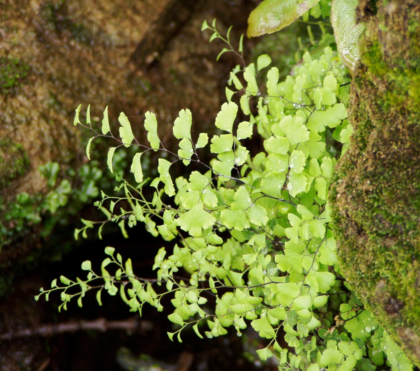 True Maidenhair Fern